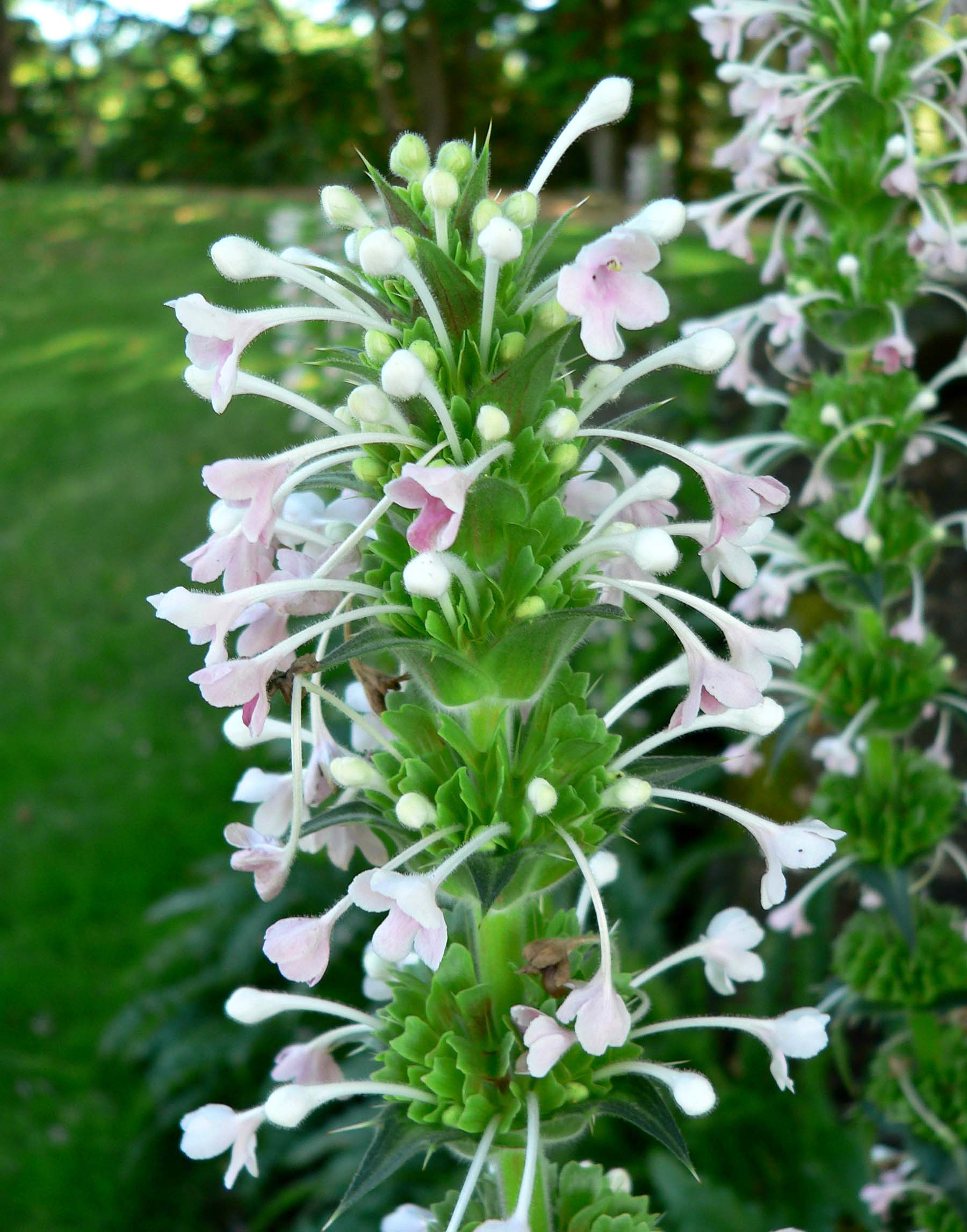 Morina longifolia in VanDusen Botanical Garden.